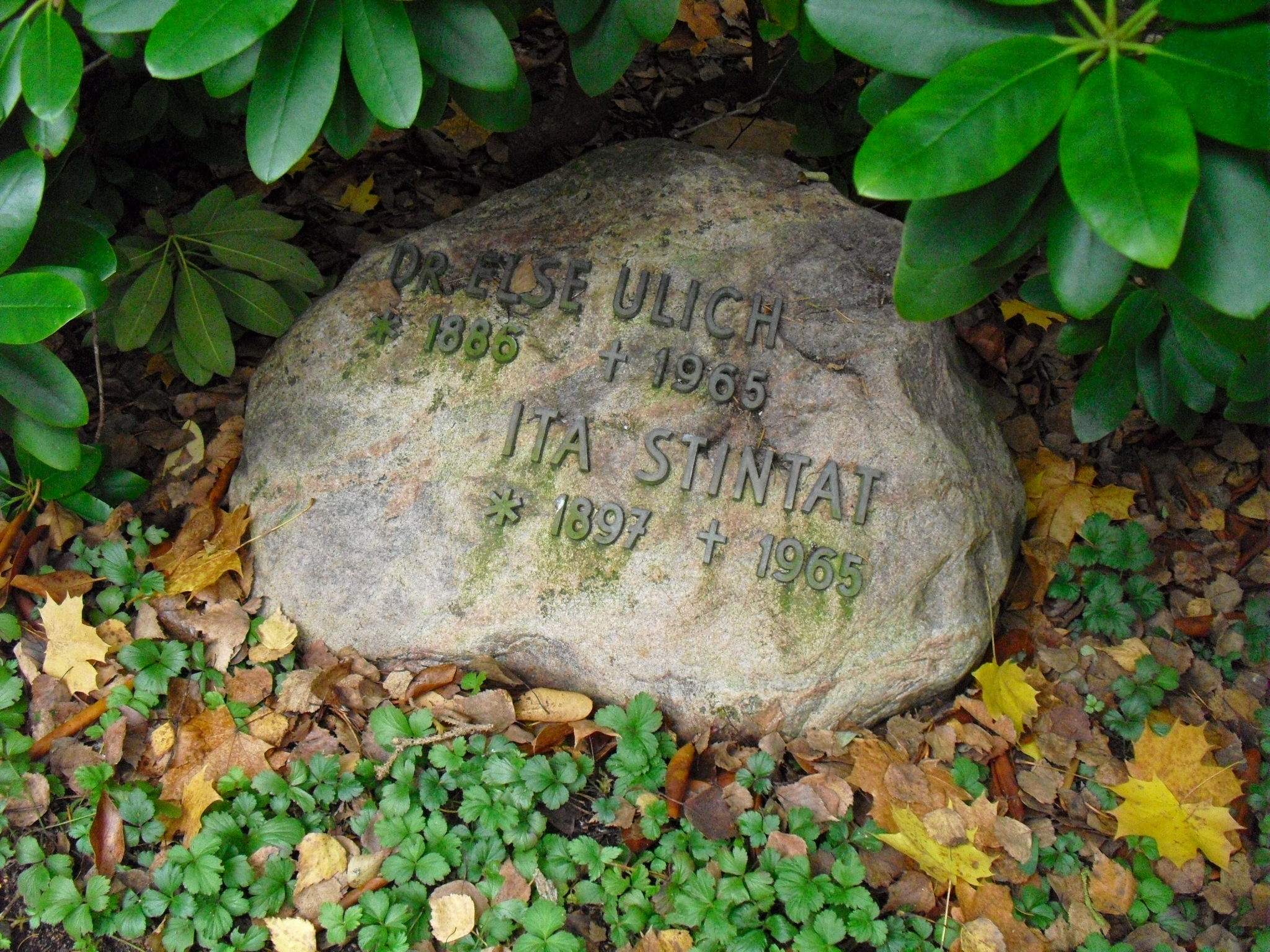 Grave of German politician Else Ulich-Beil at Friedhof Heerstraße in Berlin-Westend